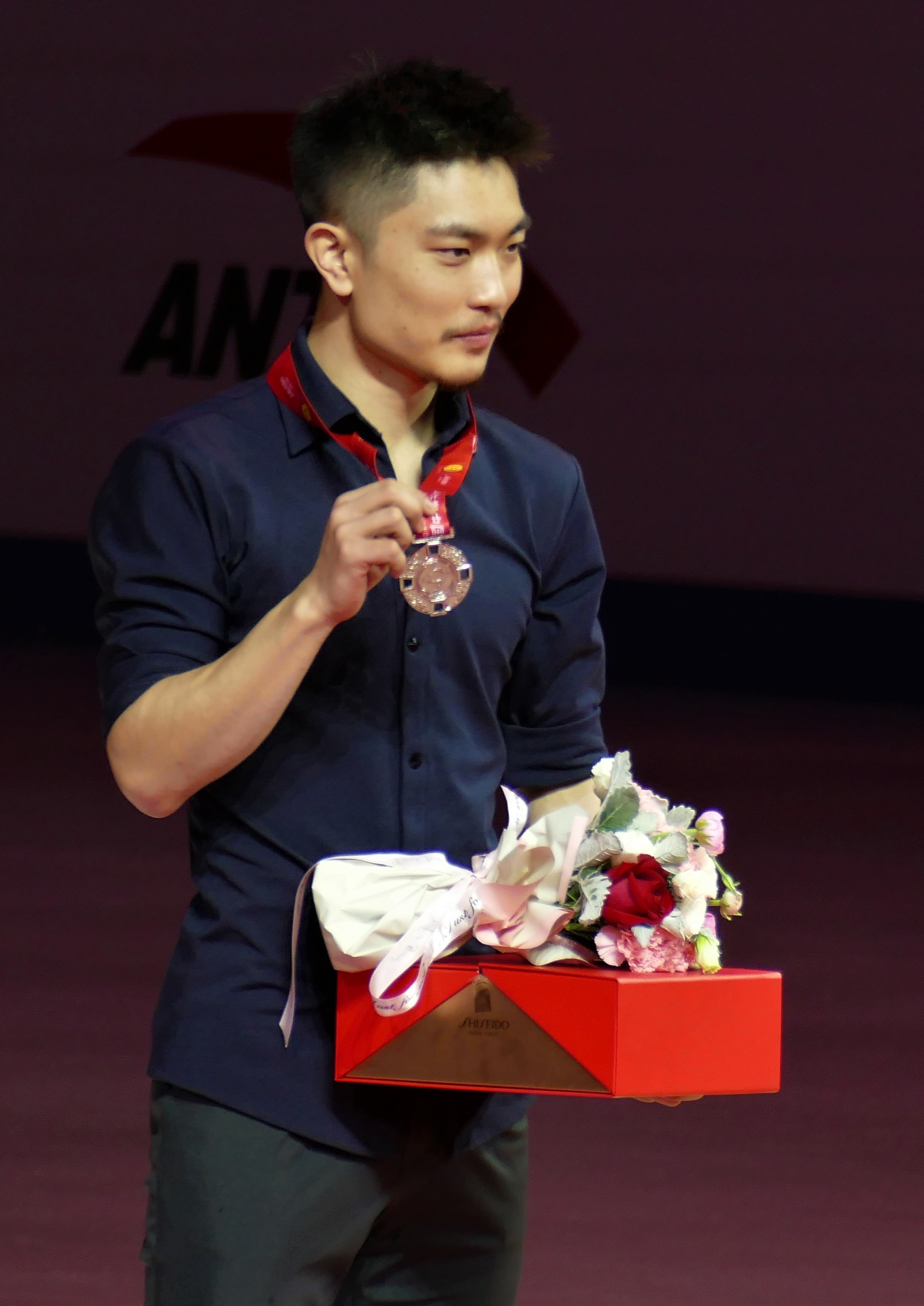 Han Yan came back and got the podium in Cup of China 2019!